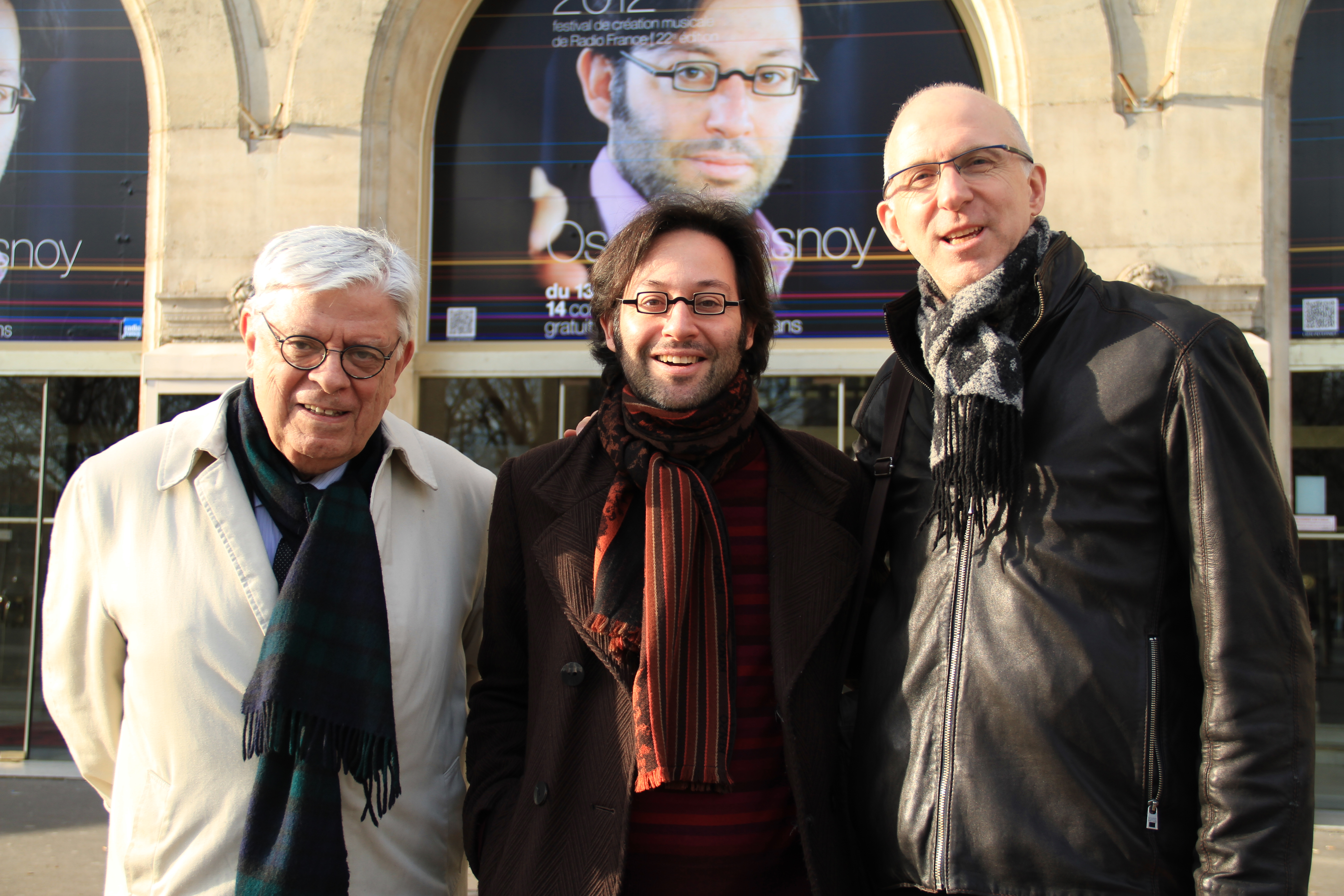 Hermenegildo Sábat, Oscar Strasnoy and Matthew Jocelyn at the Théâtre du Châtelet, Paris